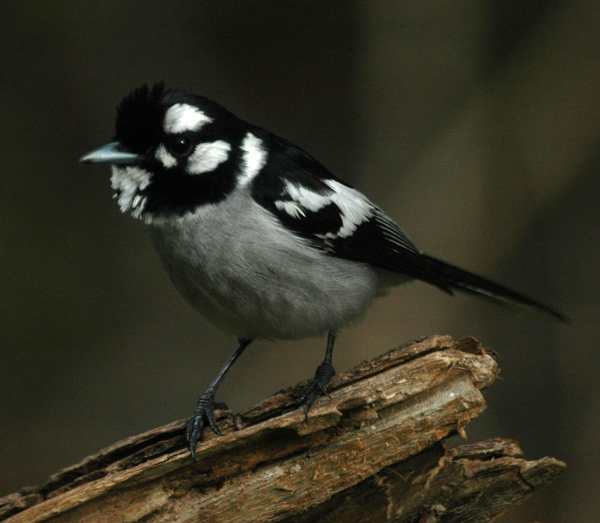 White-eared Monarch (Monarcha leucotis) Lacey's Creek, SE Queensland, Australia